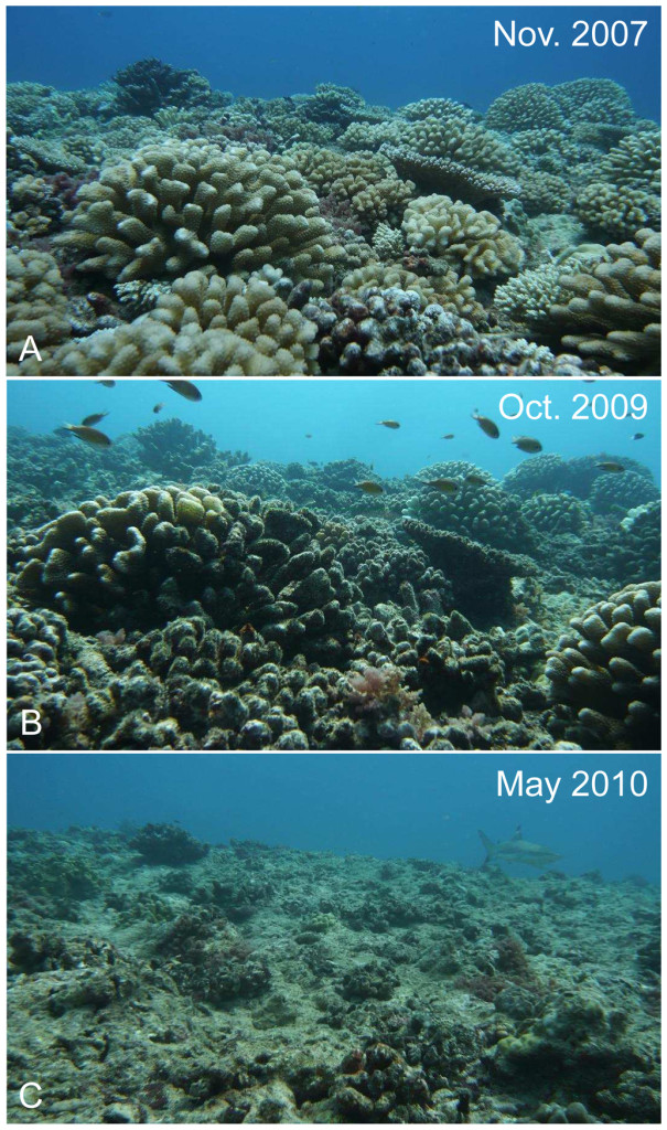 Reduction of the coral cover on the reef slope of Moorea between November 2007 (before the outbreak) and May 2010 (after the outbreak and the cyclone). Click on the image for a closer look.